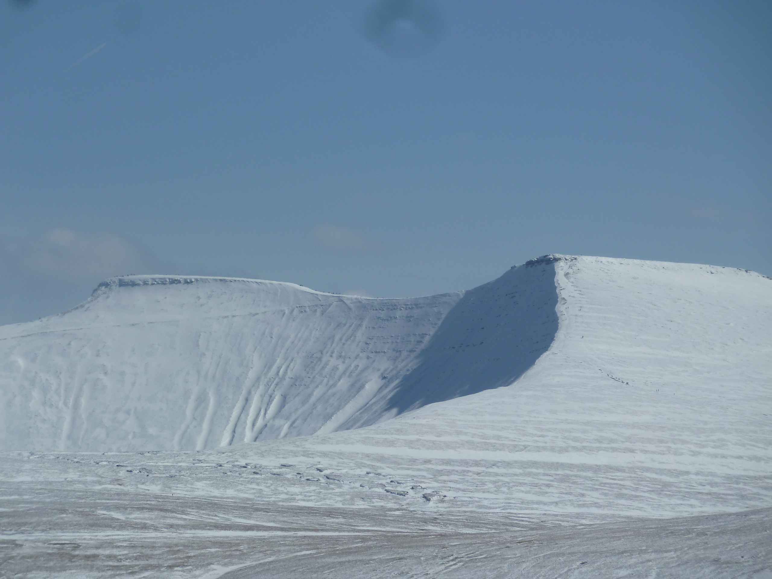 Pen y Fan (left) and Corn Du (right) in snow